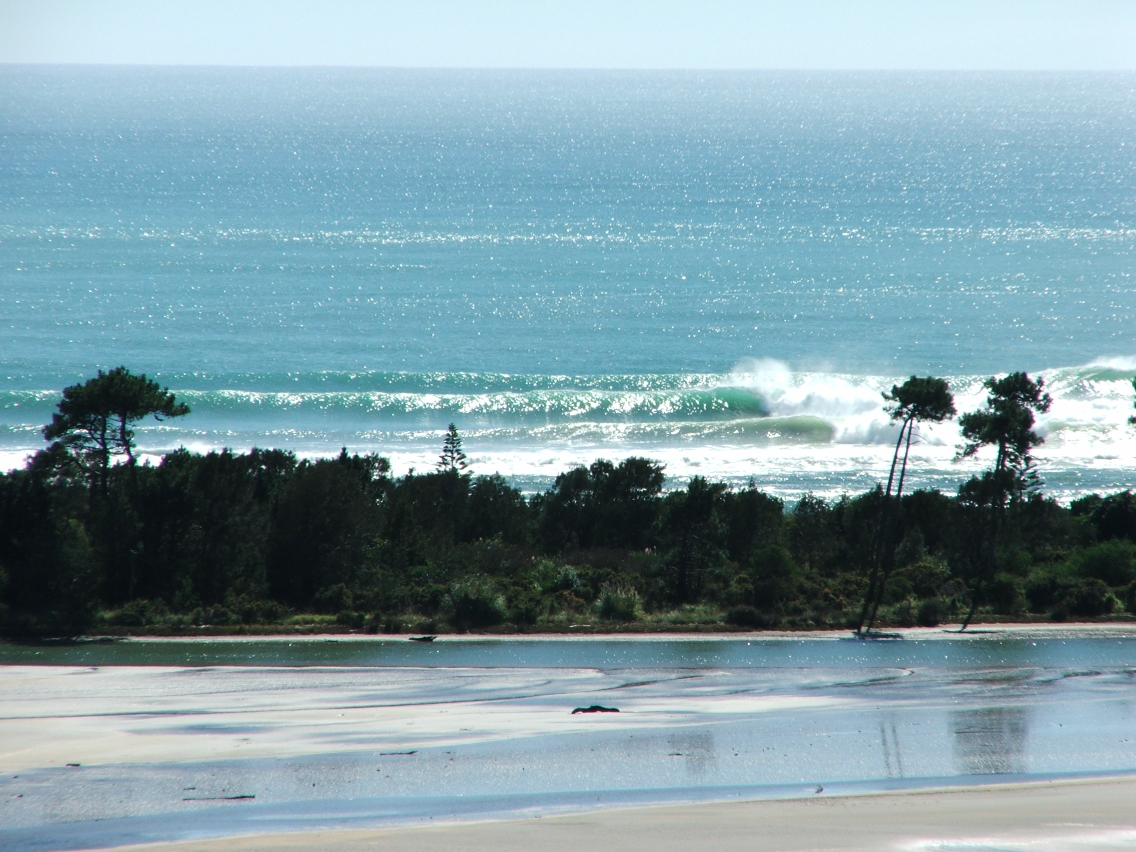 A six foot groundswell off the Whakatane Heads, midday of the March 15th, 2006. Taken from a nearby hilltop.